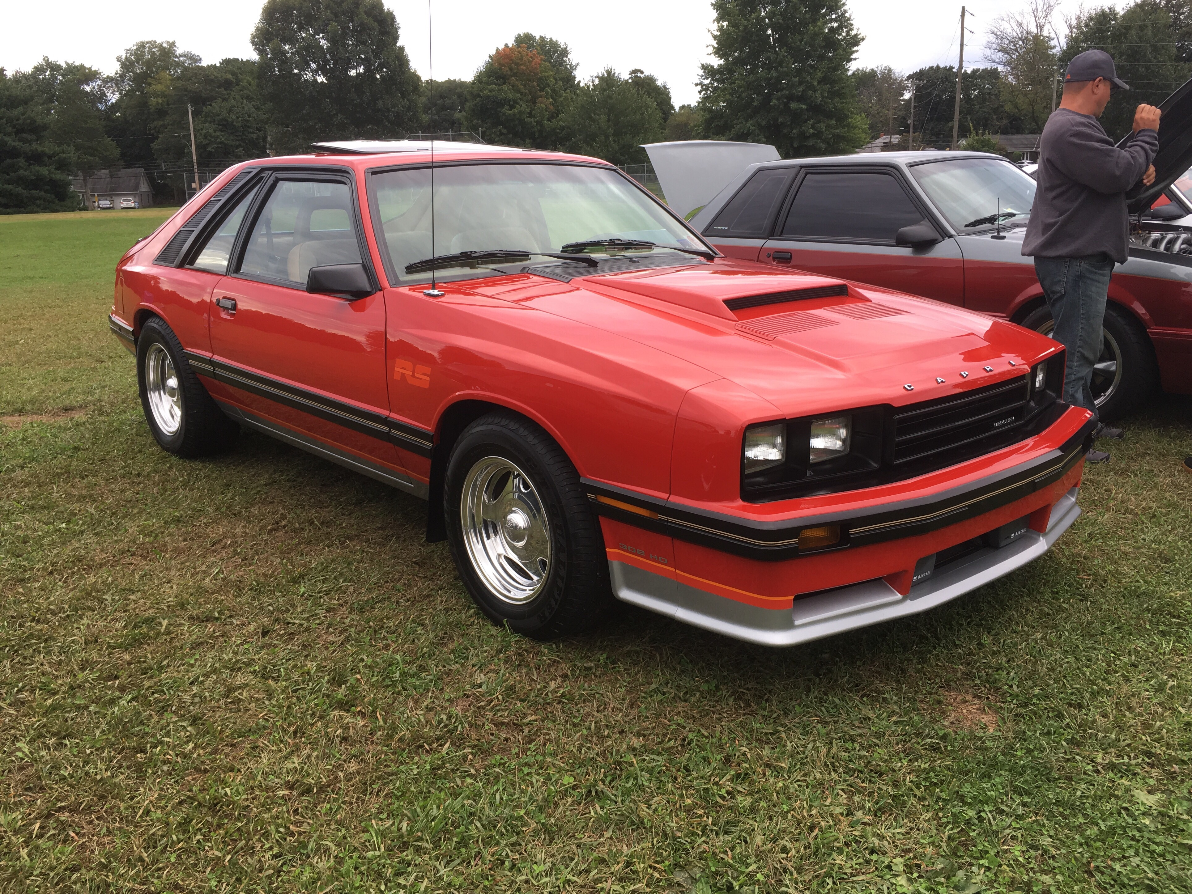 1979-1982 Mercury Capri RS (Mercury counterpart of Ford Mustang GT)